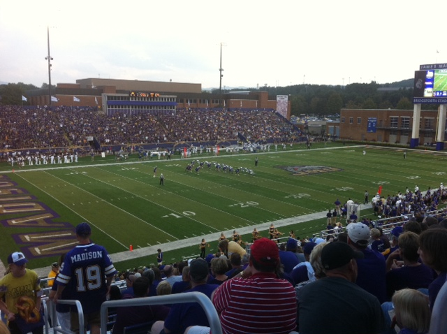 JMU versus Central Connecticut 9/10/11